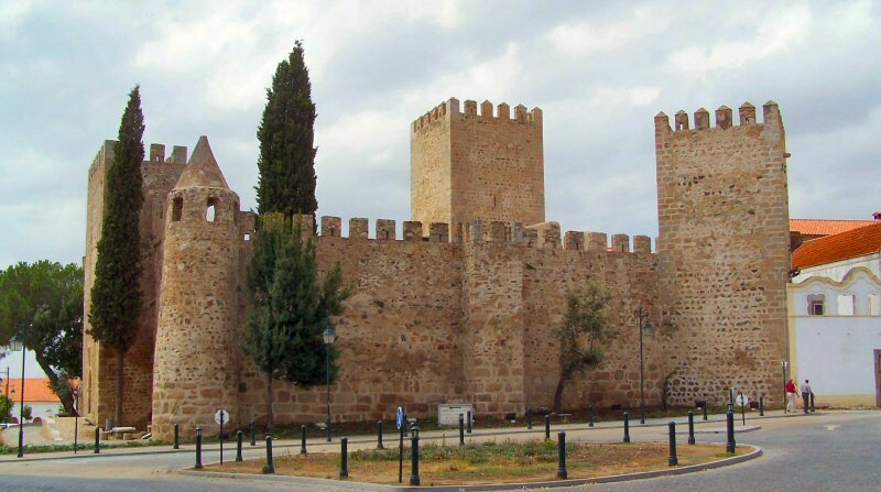 Alter do Chão is a municipality in Portugal with a total area of 362.0 km² and a total population of 3,666 inhabitants. The municipality is composed of 4 parishes, and is located in the District of Portalegre.